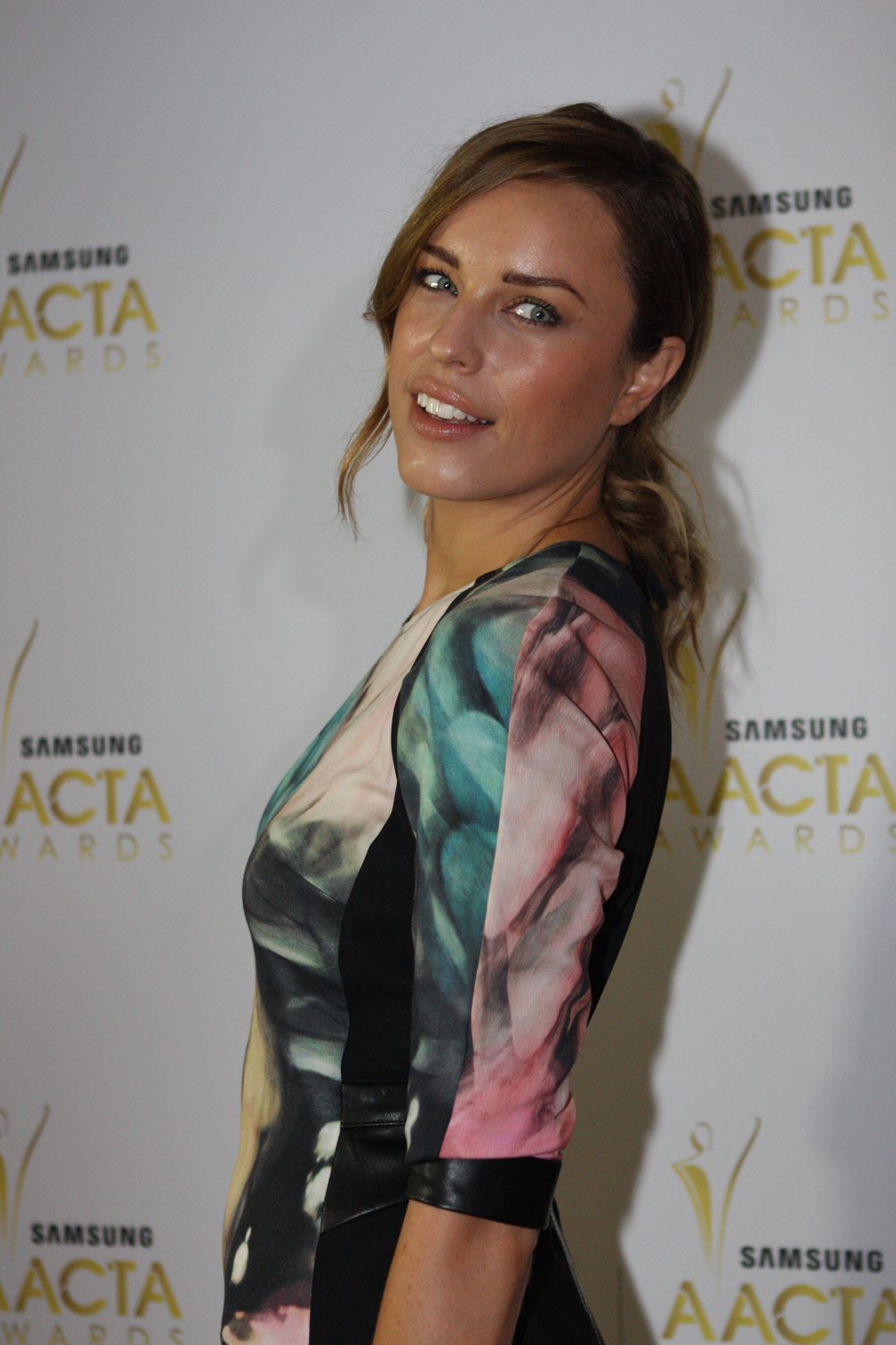 Australian actress Jessica McNamee at the AACTA Awards From Sydney, Australia, January 2012